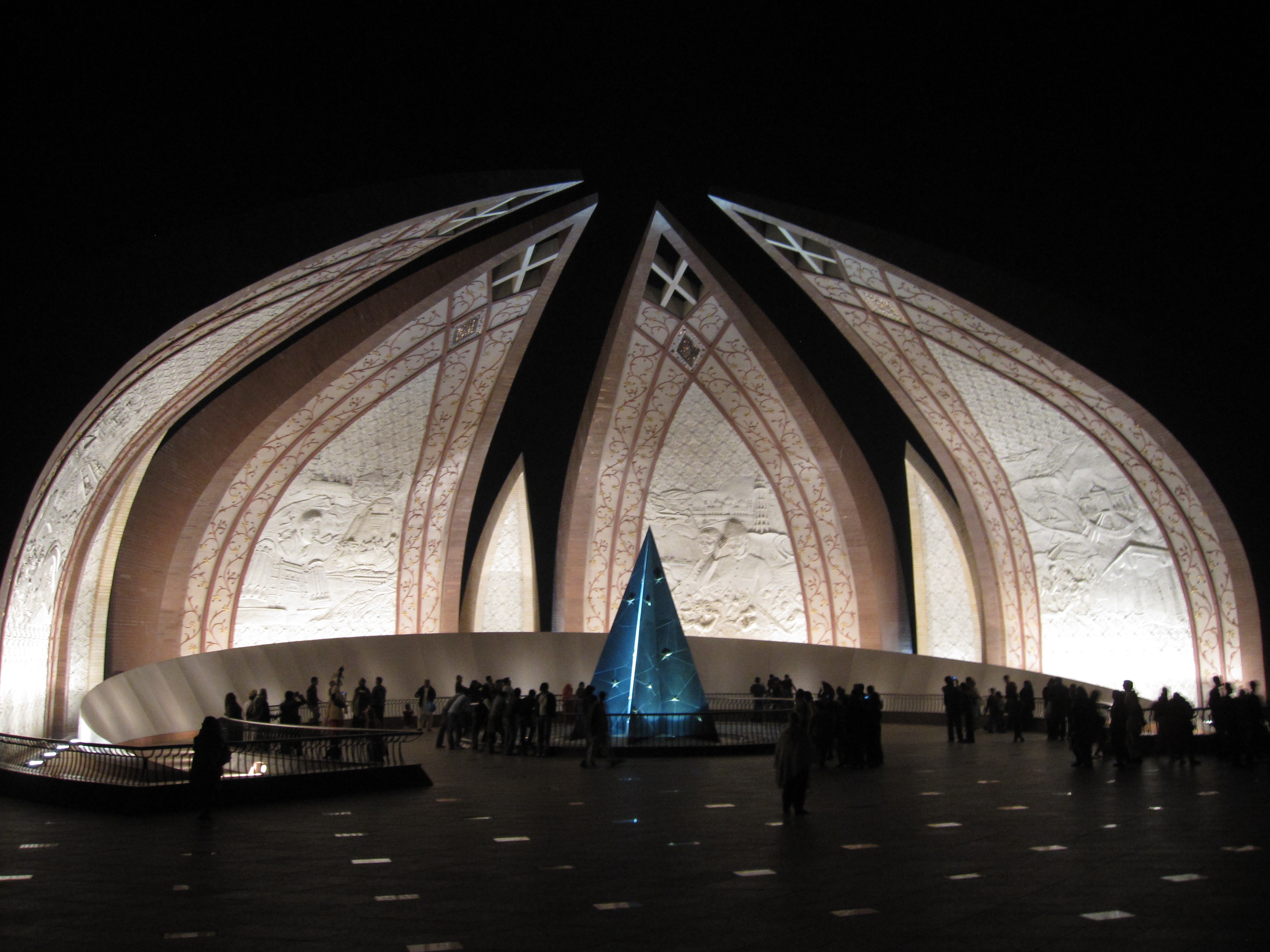 Pakistan Monument by night - Islamabad,Pakistan.